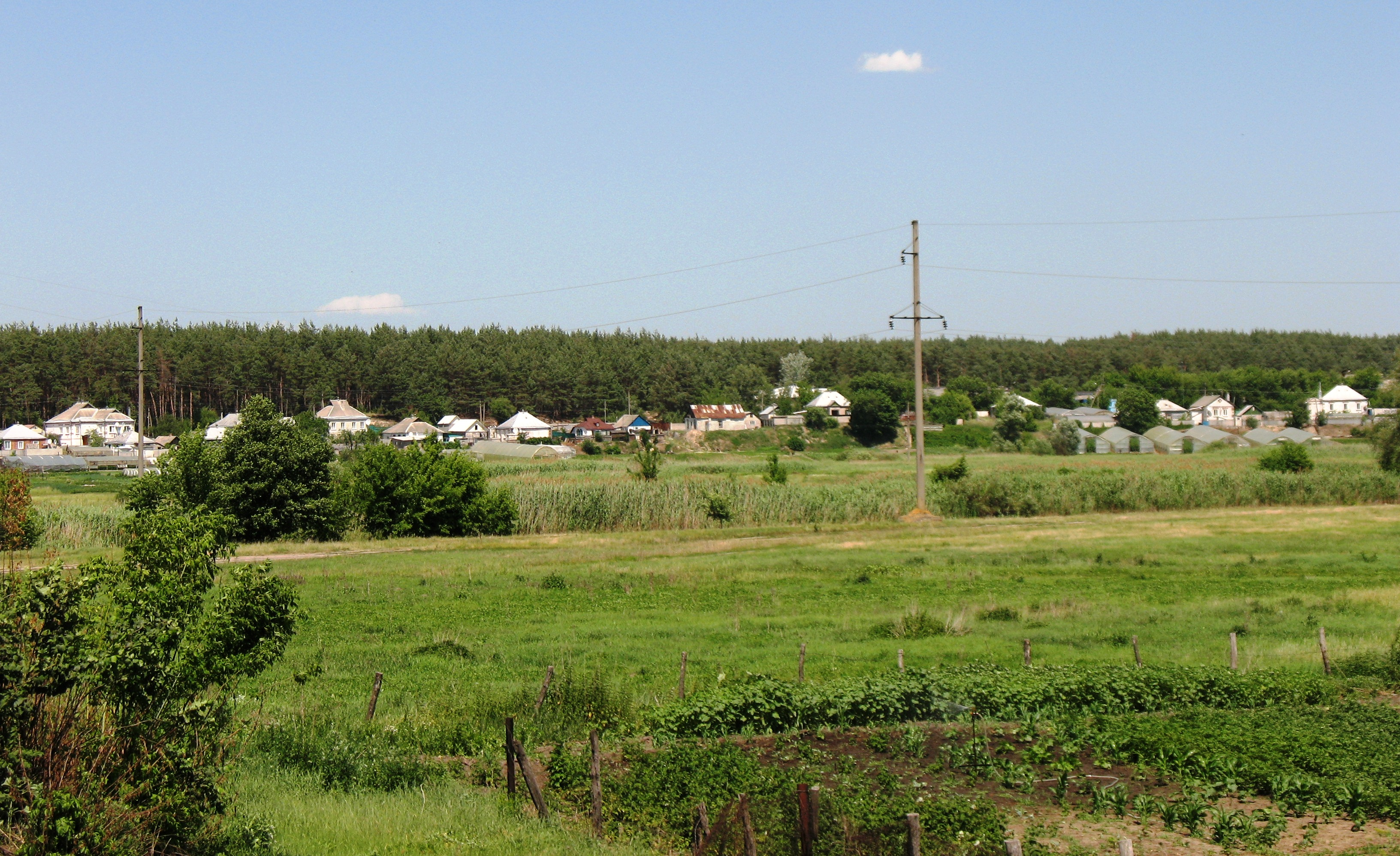 Kharkov Oblast. Temnovka village and kitchen gardens.